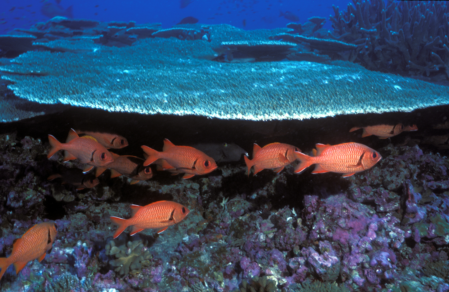 Soldierfish, Baker Island NWR Photo credit: Jim Maragos/U.S. Fish and Wildlife Service This image or recording is the work of a U.S. Fish and Wildlife Service employee, taken or made as part of that person's official duties. As a work of the U.S. federal government, the image is in the public domain. For more information, see the Fish and Wildlife Service copyright policy.